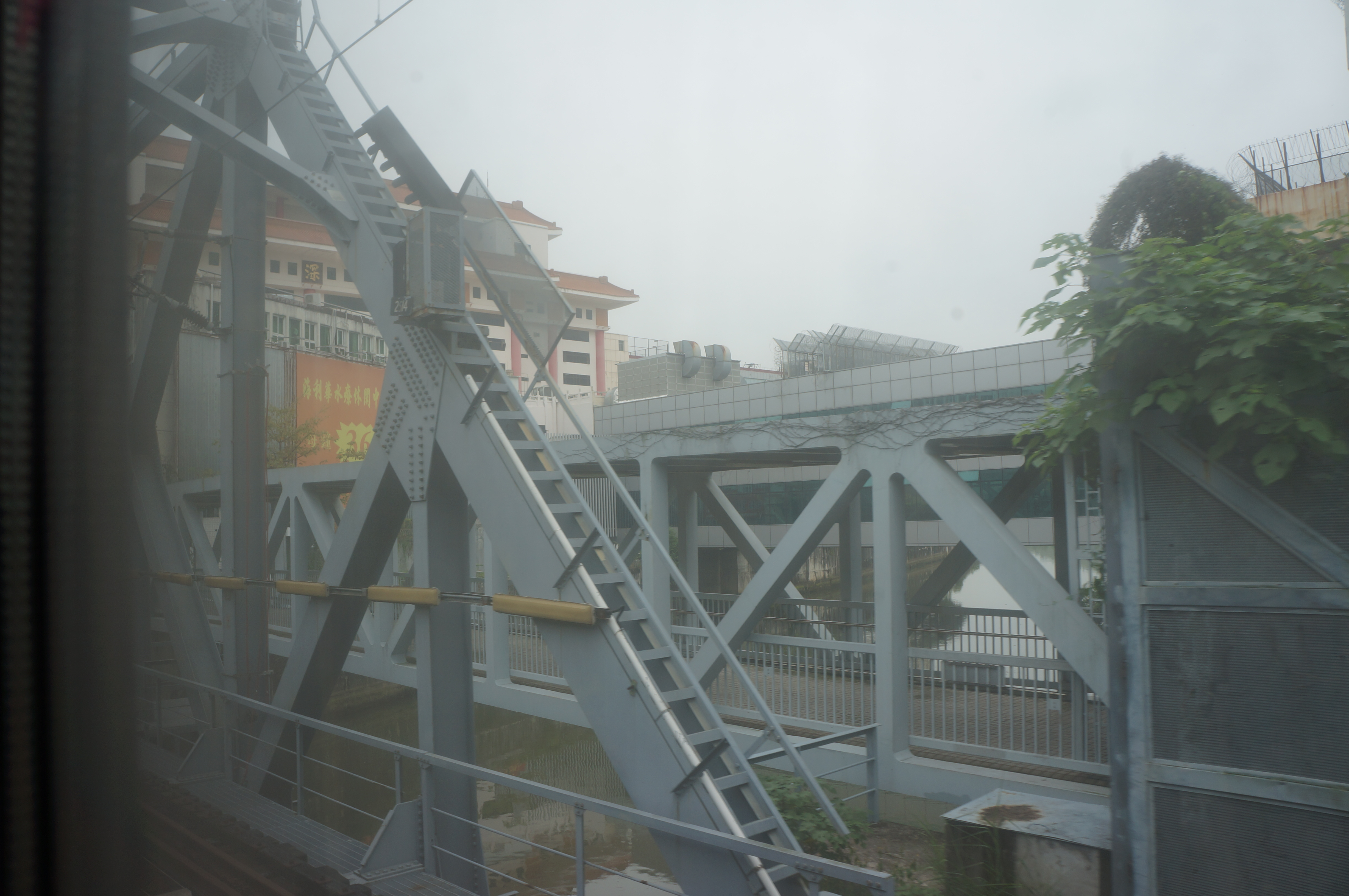 201609 Z817 has passed Lo Wu Bridge, Pinyin will not be used anymore?